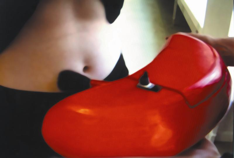 The JelliBelli Egostroking Machine for the mechanical enhancement of self-esteem in action, 20017